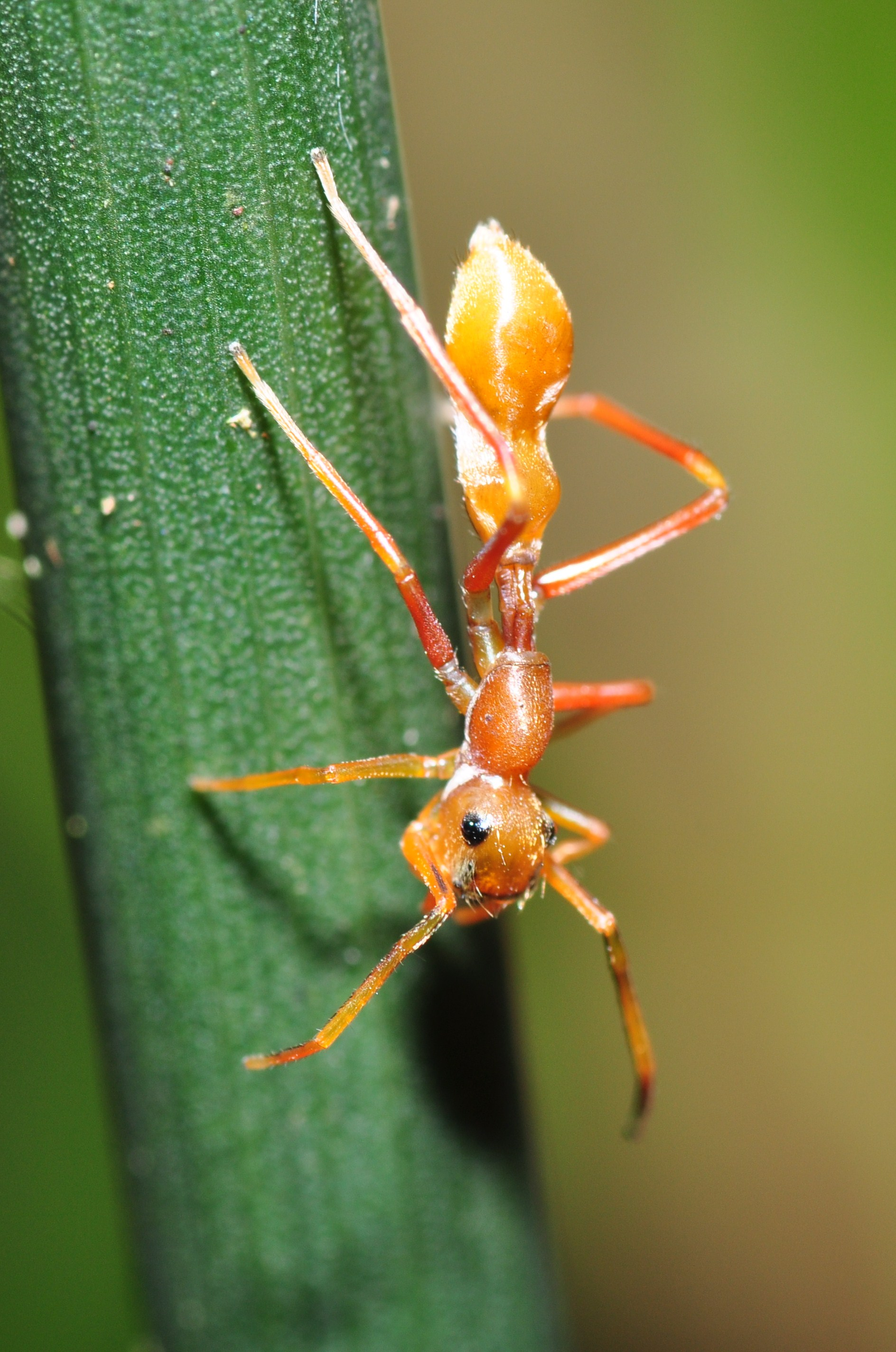 From wikipedia: jumping spider that mimics the Kerengga or weaver ant (Oecophylla smaragdina) in morphology and behaviour. Found in India, Sri Lanka, China and many parts of Southeast Asia. The spiders live in trees and bushes where the weaver ants live in colonies. By mimicking the ants they are able to stay close to them and gain protection from predators since weaver ants have a painful bite and also taste bad. The Kerengga Ant-like Jumper also mimics ant-like behaviour by the style of locomotion and by the way they wave their front legs like antennae to mimic the ants.